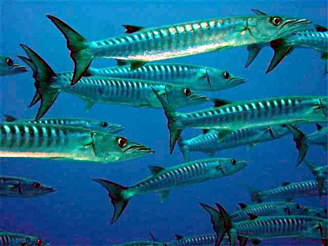 A school of Chevron barracuda (Sphyraena putnamae) s. Underwater photograph taken by Dlloyd using a digital camera in Bora Bora, French Polynesia.